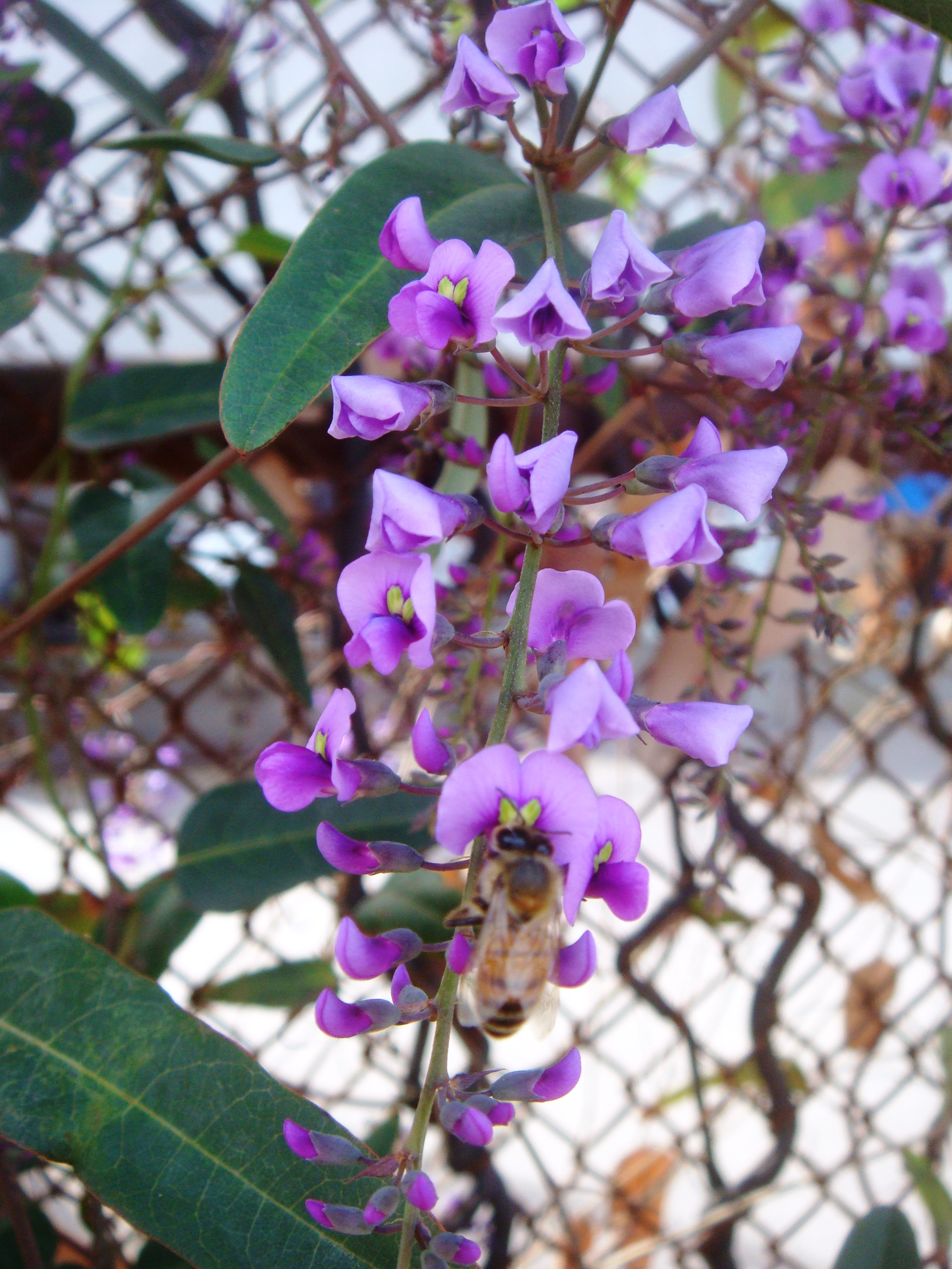 Hardenbergia violacea, cultivated, Arizona State University, Tempe, Arizona